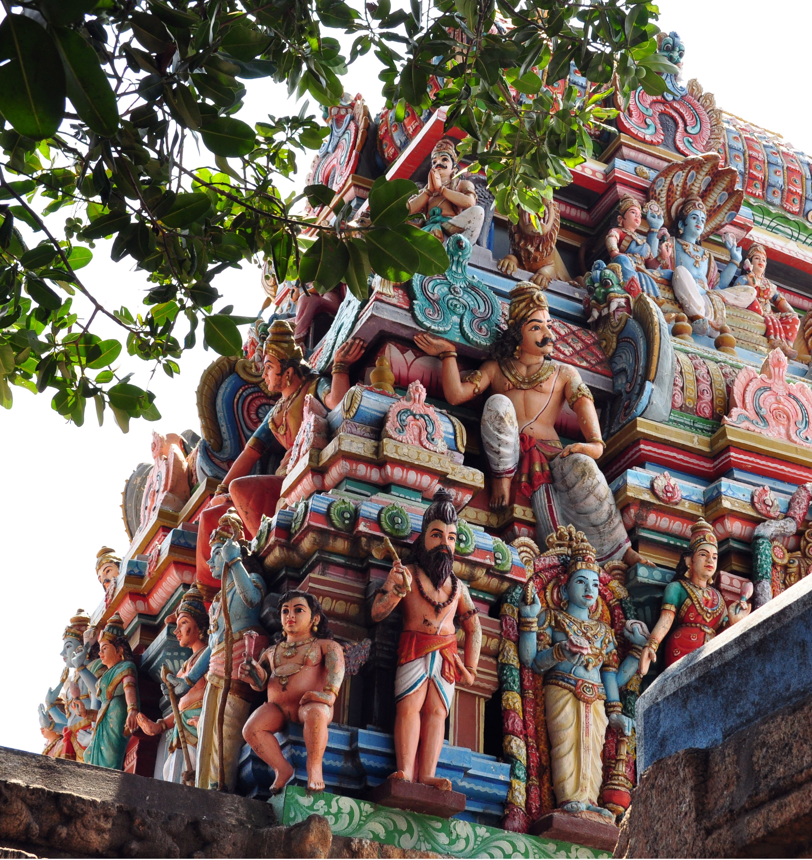 Gopuram of a Hindu Temple.